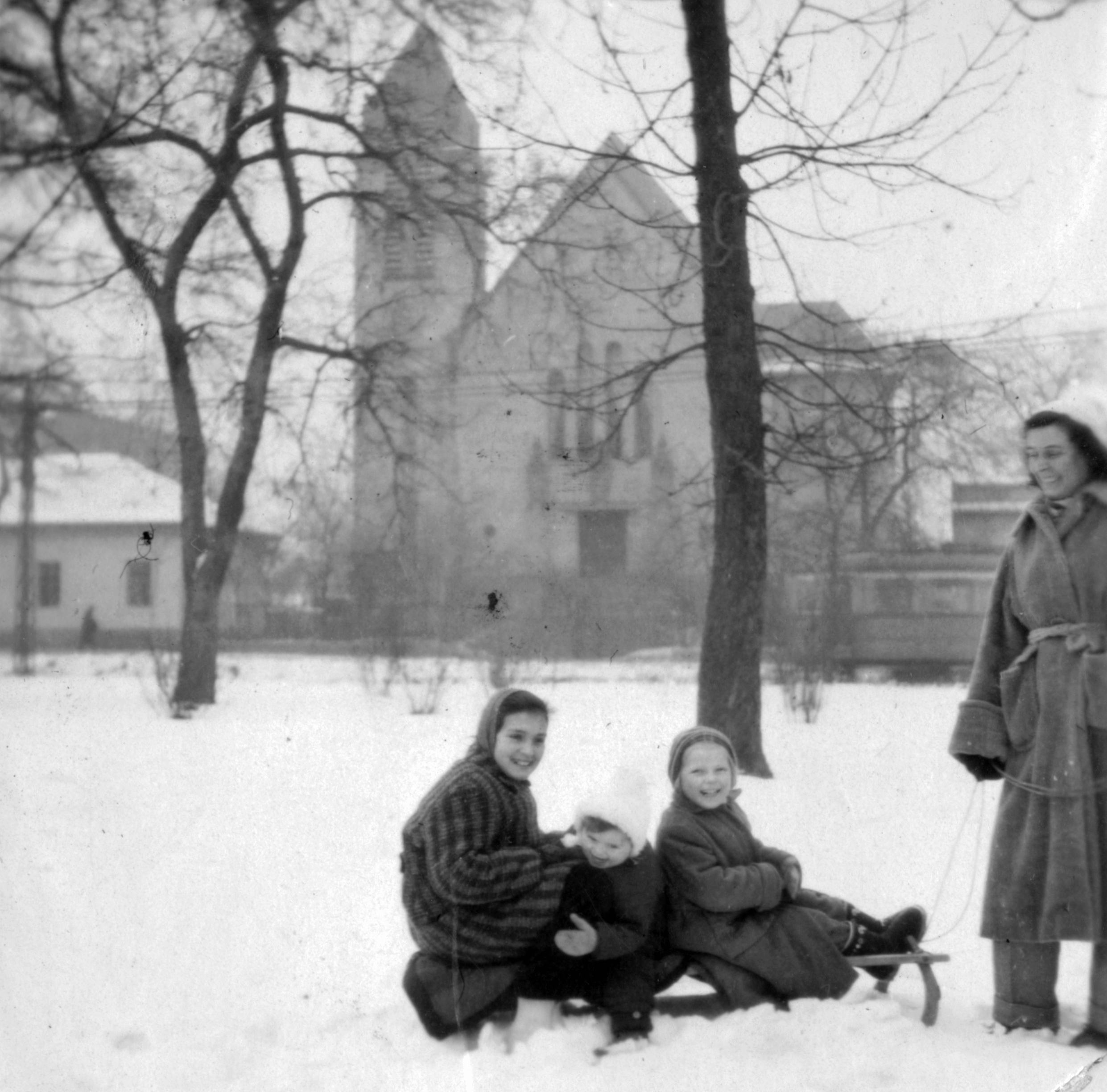 Location: Hungary, Budapest XIV. Tags: Budapest